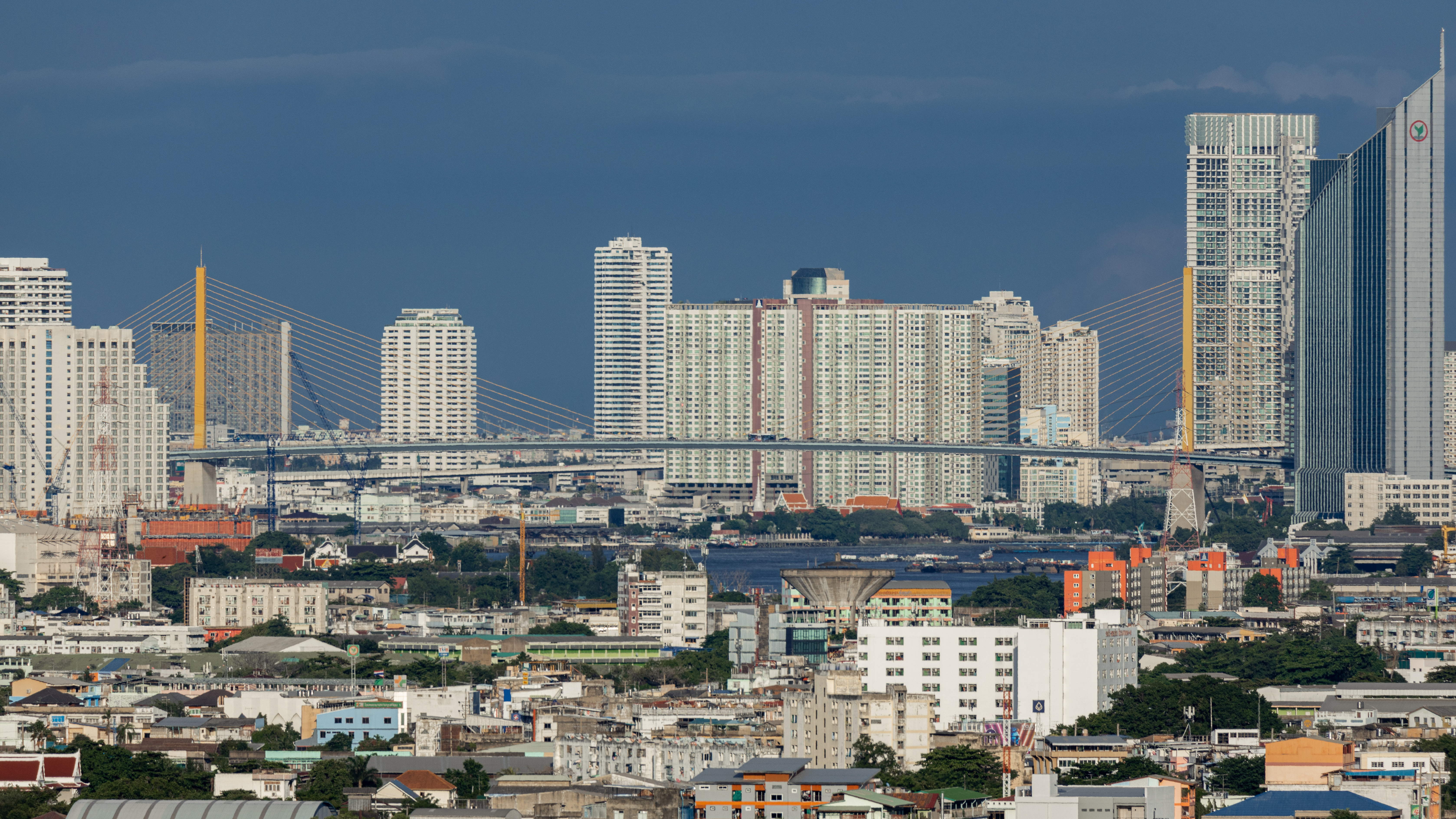 Rama IX Bridge is a bridge in Bangkok, Thailand over the Chao Phraya River. It connects the Yan Nawa District to Rat Burana District as a part of the Dao Khanong – Port Section of Chalerm Maha Nakhon Expressway.